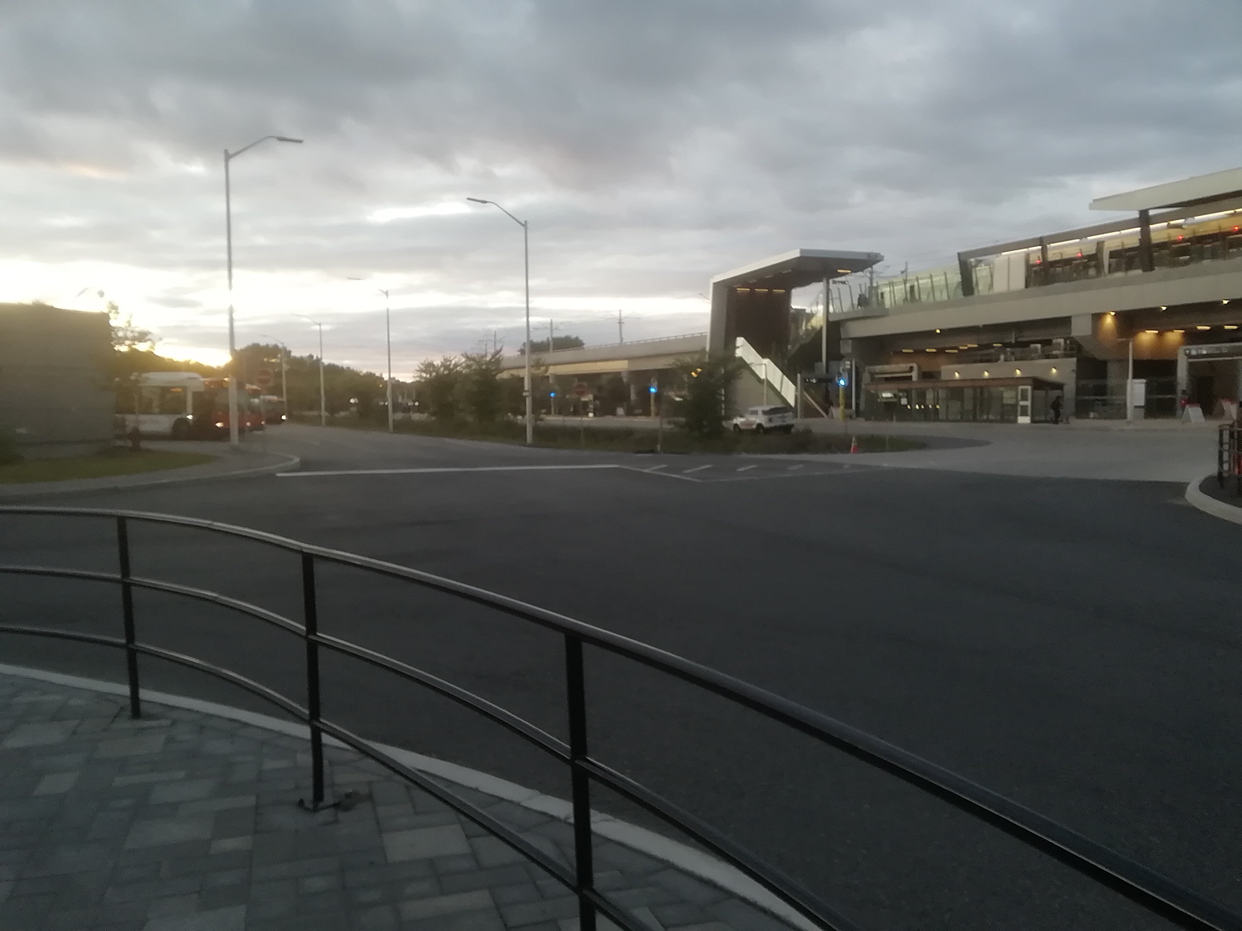 Hurdman Station looking northwest, 2019